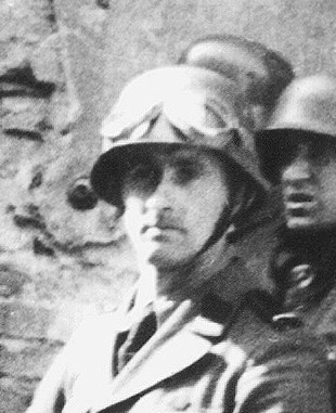 Josef Blösche during Warsaw Ghetto Uprising (Poland) - Photo from Jürgen Stroop Report to Heinrich Himmler from May 1943.